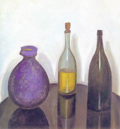 Still life Bottles and a Jug. 1912. Museum Abramtsevo, Russia